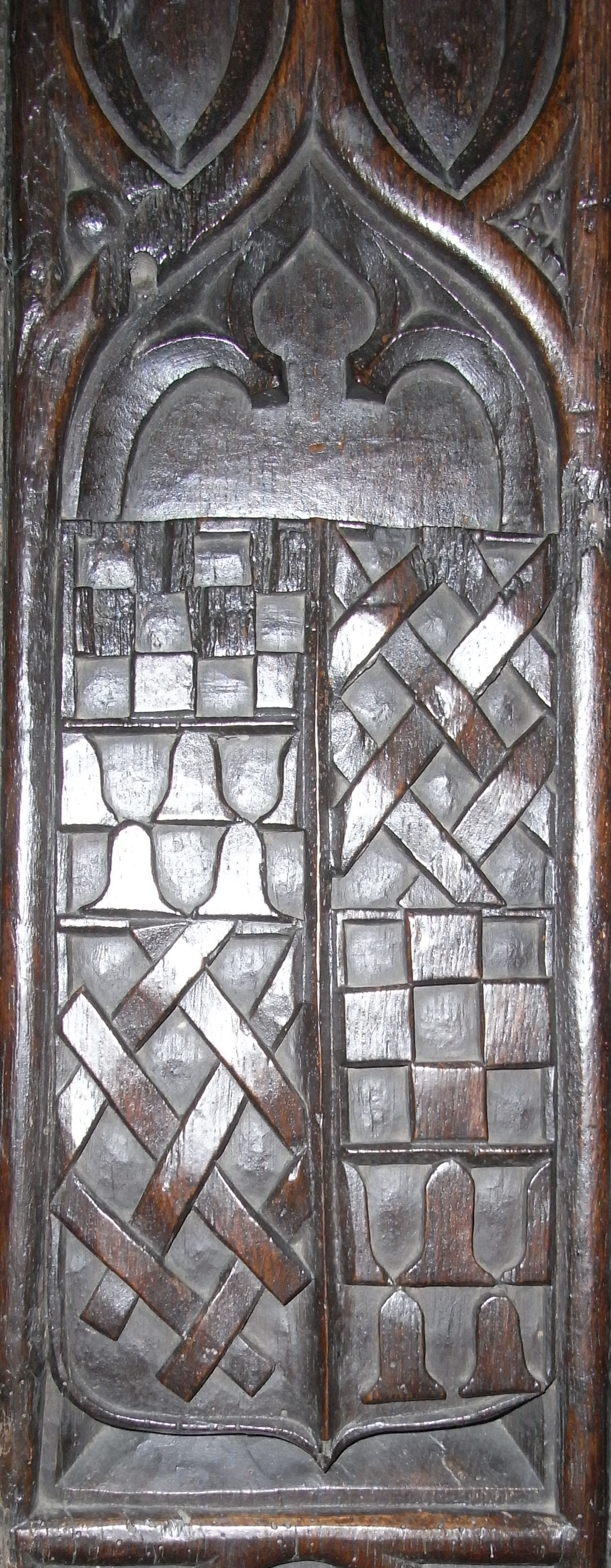 Arms of Fleming quartering Bellew, bench-end, St. Branock's Church, Braunton, Devon. Relates to the descent of the manor of Ash within the parish of Braunton.